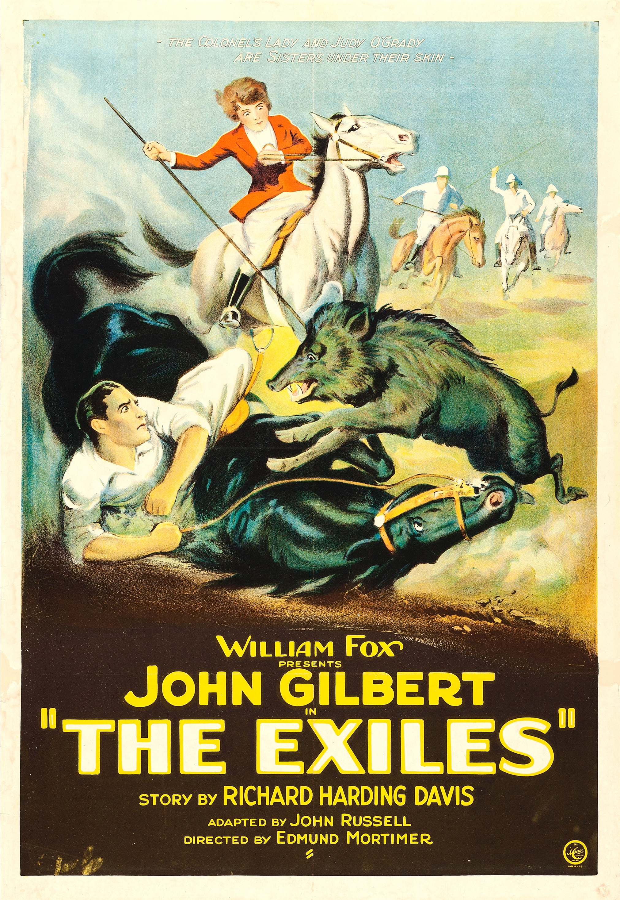 This is a poster for the 1923 American silent drama film The Exiles.